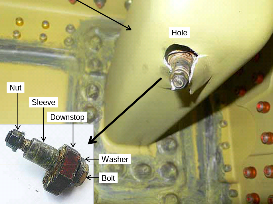 On August 20, 2007, a Boeing 737-800, registered B18616, operated by China Airlines took off from Taiwan Taoyuan International Airport on a regularly scheduled Flight 120 of the company, and landed at Naha Airport. At about 10:33, immediately after the aircraft stopped at Spot 41, fuel that was leaking from the fuel tank on the right wing caught fire and the aircraft was engulfed in flames.